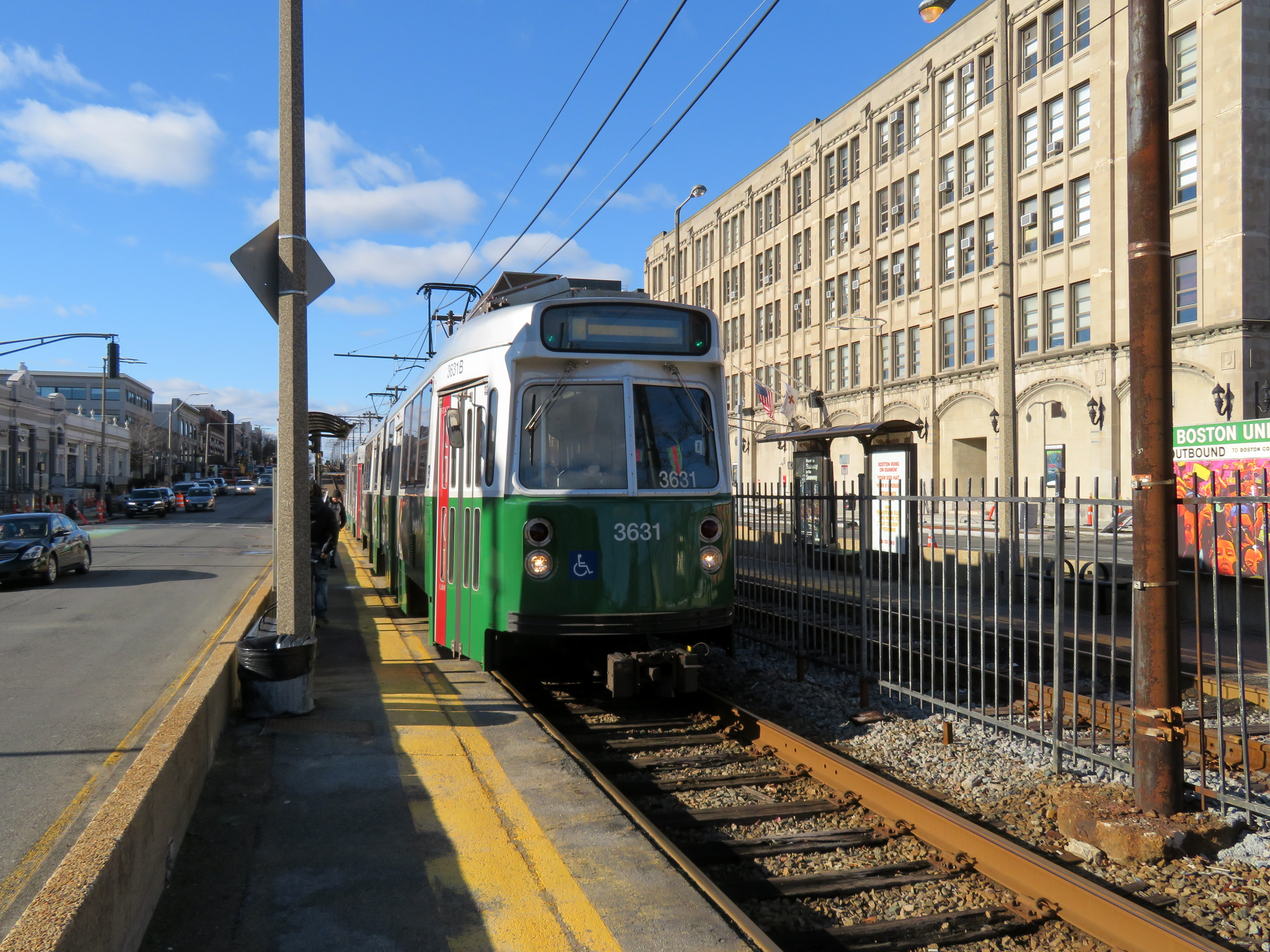 Inbound train at Boston University West station in December 2018